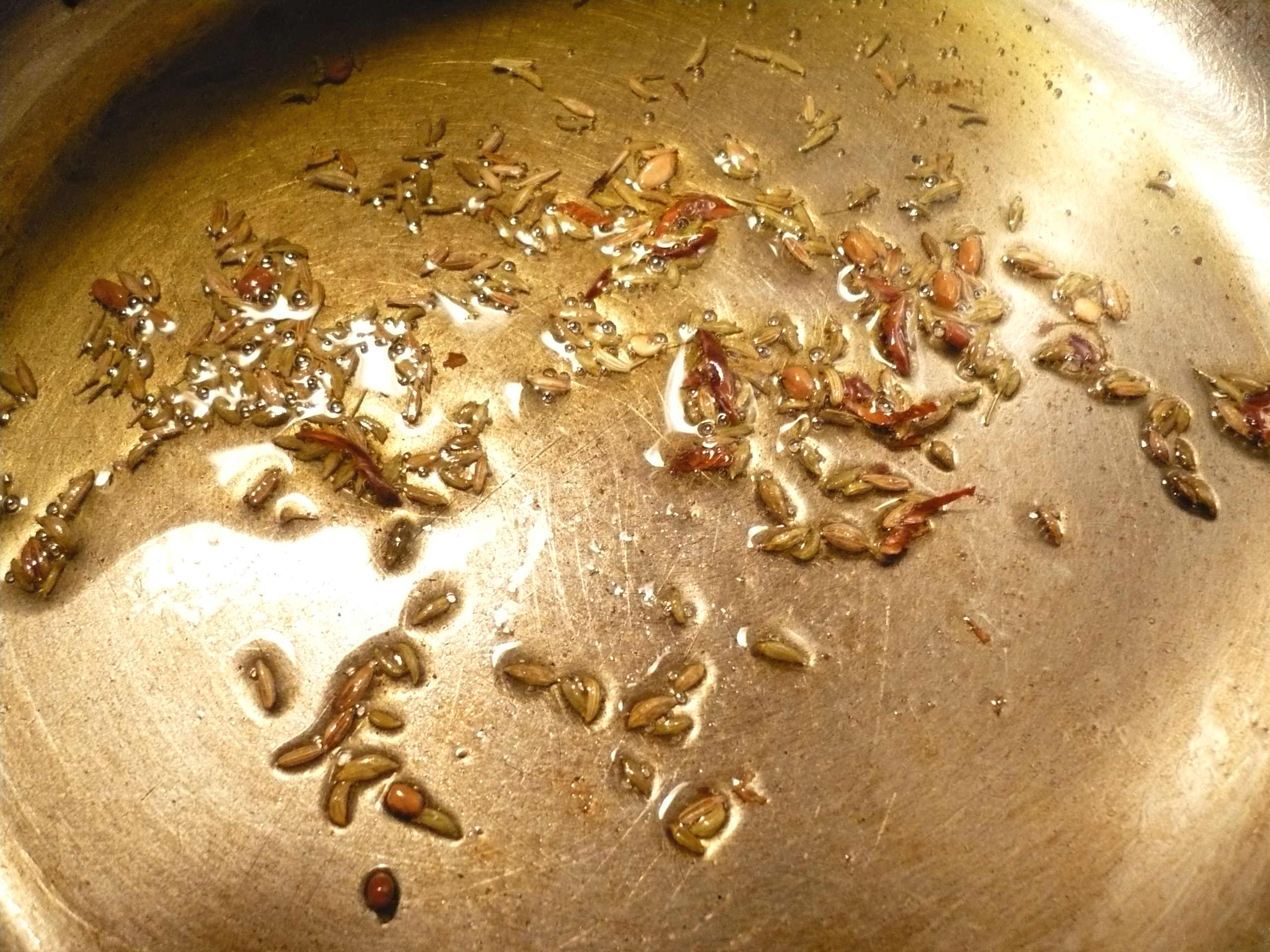 A chaunk being prepared in a saucepan. Chaunk contains olive oil, fennel seeds, cumin seeds, fenugreek seeds, and slivered dried red chili peppers. Note the small bubbles from the hot oil. Photo taken in Kent, Ohio, United States.